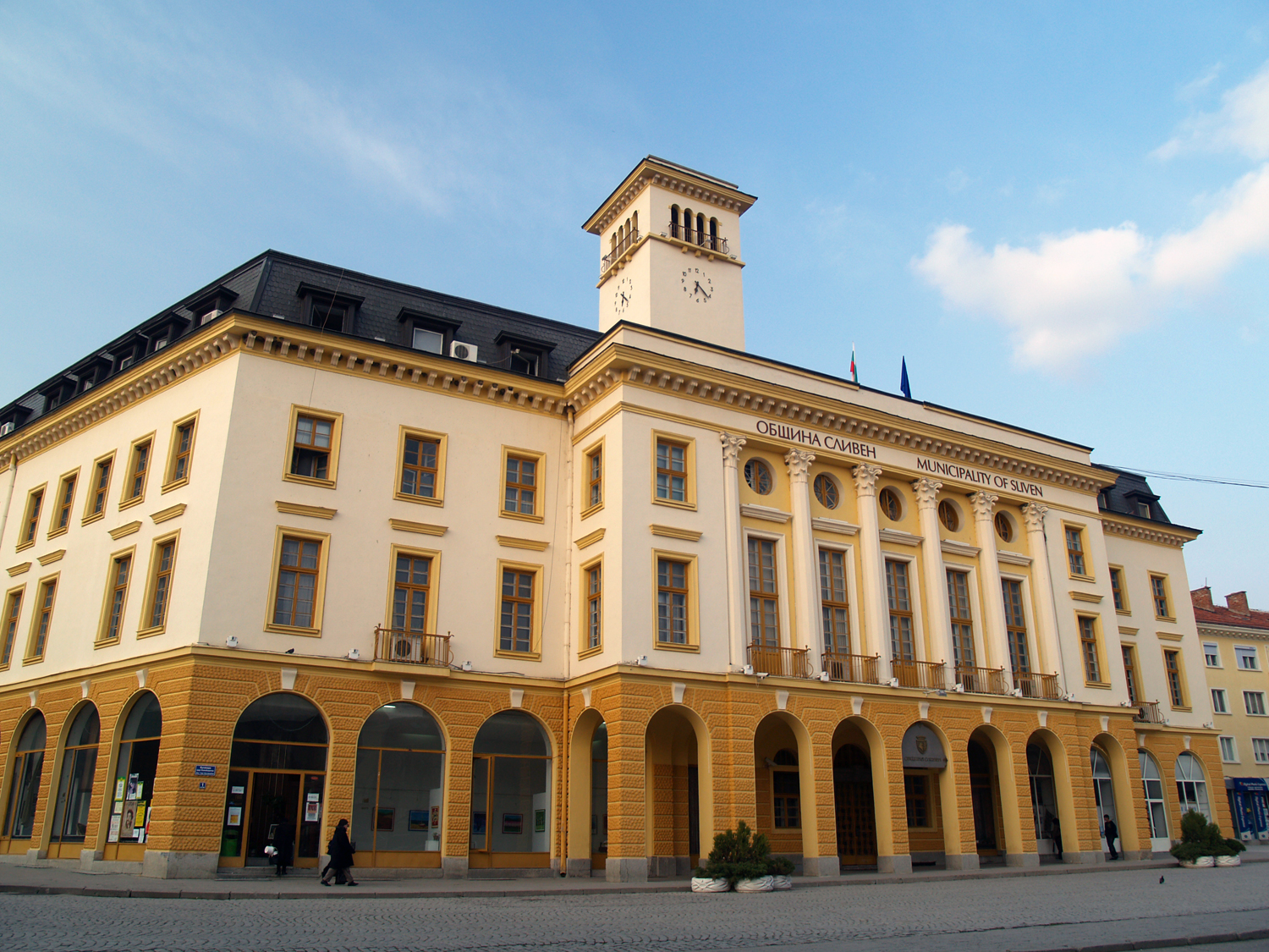 Sliven Municipality Town hall